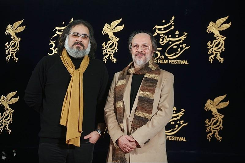 Day 4 of 35th Fajr International Film Festival at Mellat Pardis